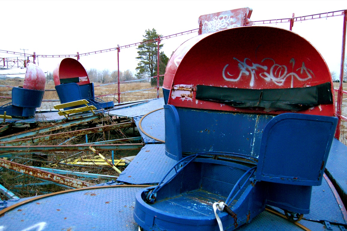 Prudhomme's Landing Wet n' Wild, Abandoned water park, Jordan Station, Ontario, Canada